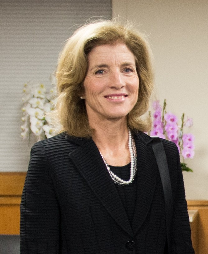 Caroline Kennedy, Ambassador to Japan.